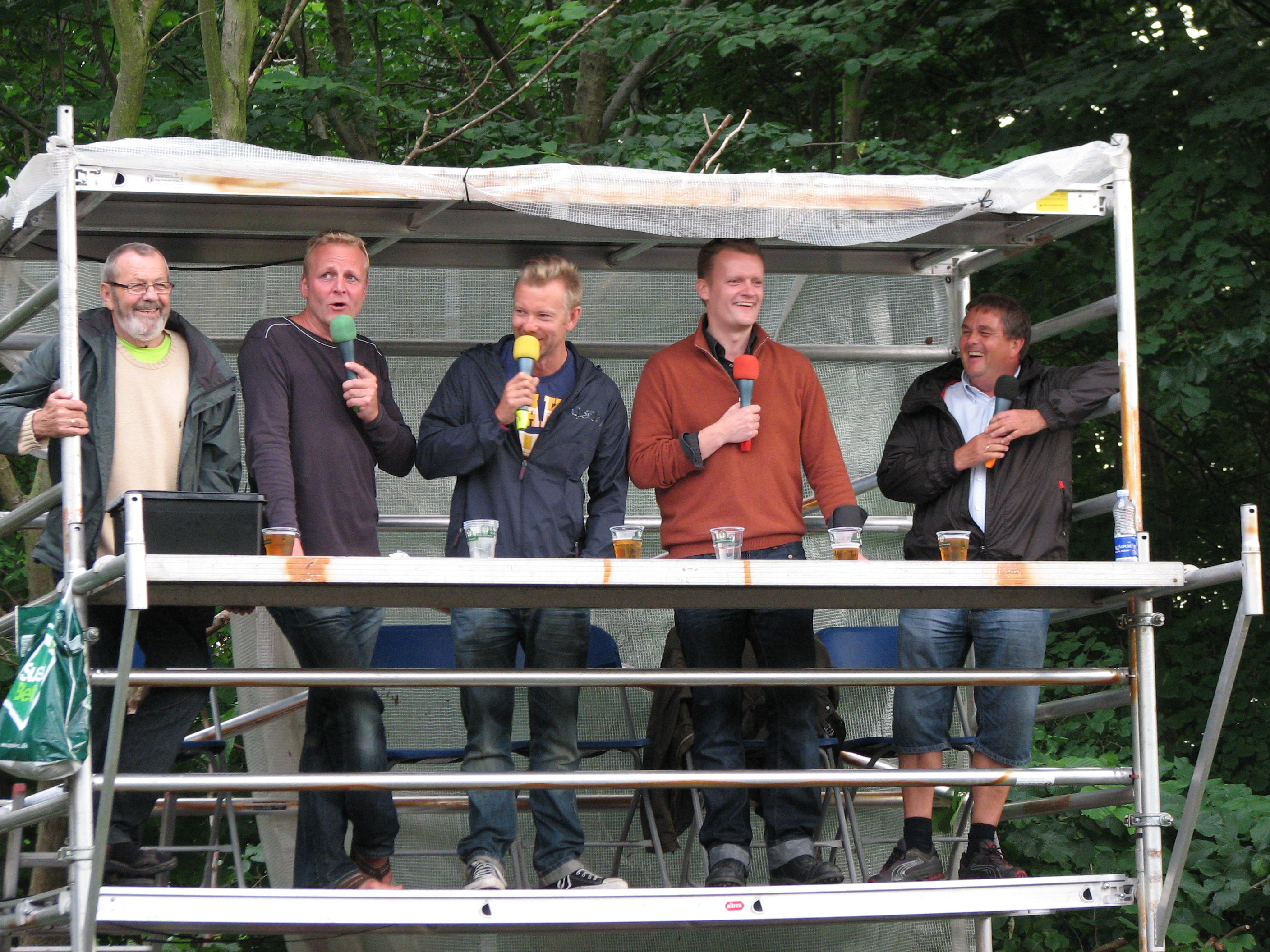 Left to right: (unknown nonfamous guy), Jan Gintberg, Casper Christensen, Frank Hvam, and Carsten Werge. Commentating the Landligger soccer tournament in Rørvig.